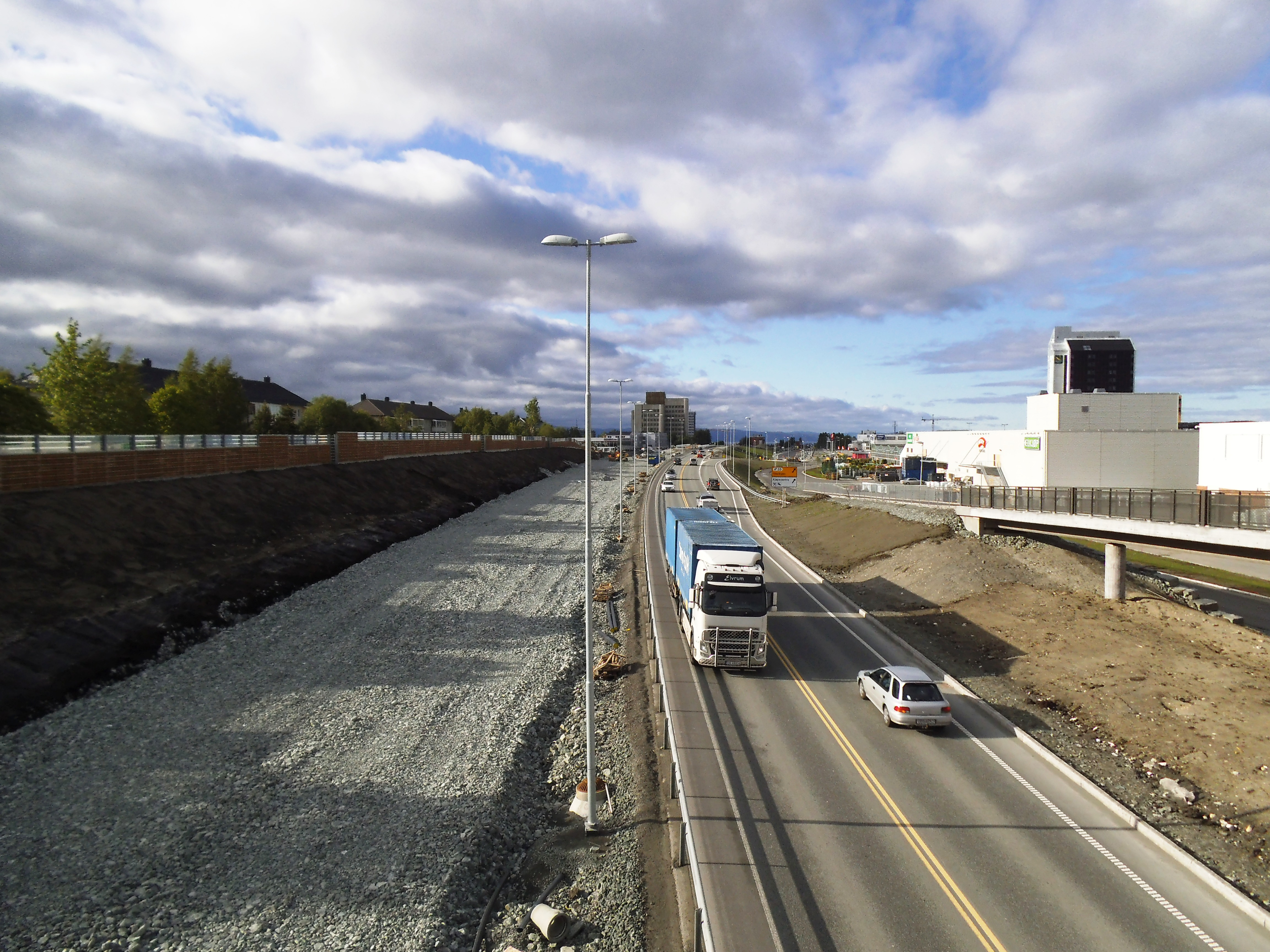 Construction of a new highway in Tiller, Trondheim. Towards Trondheim. You can see Quality Hotel on the right side.